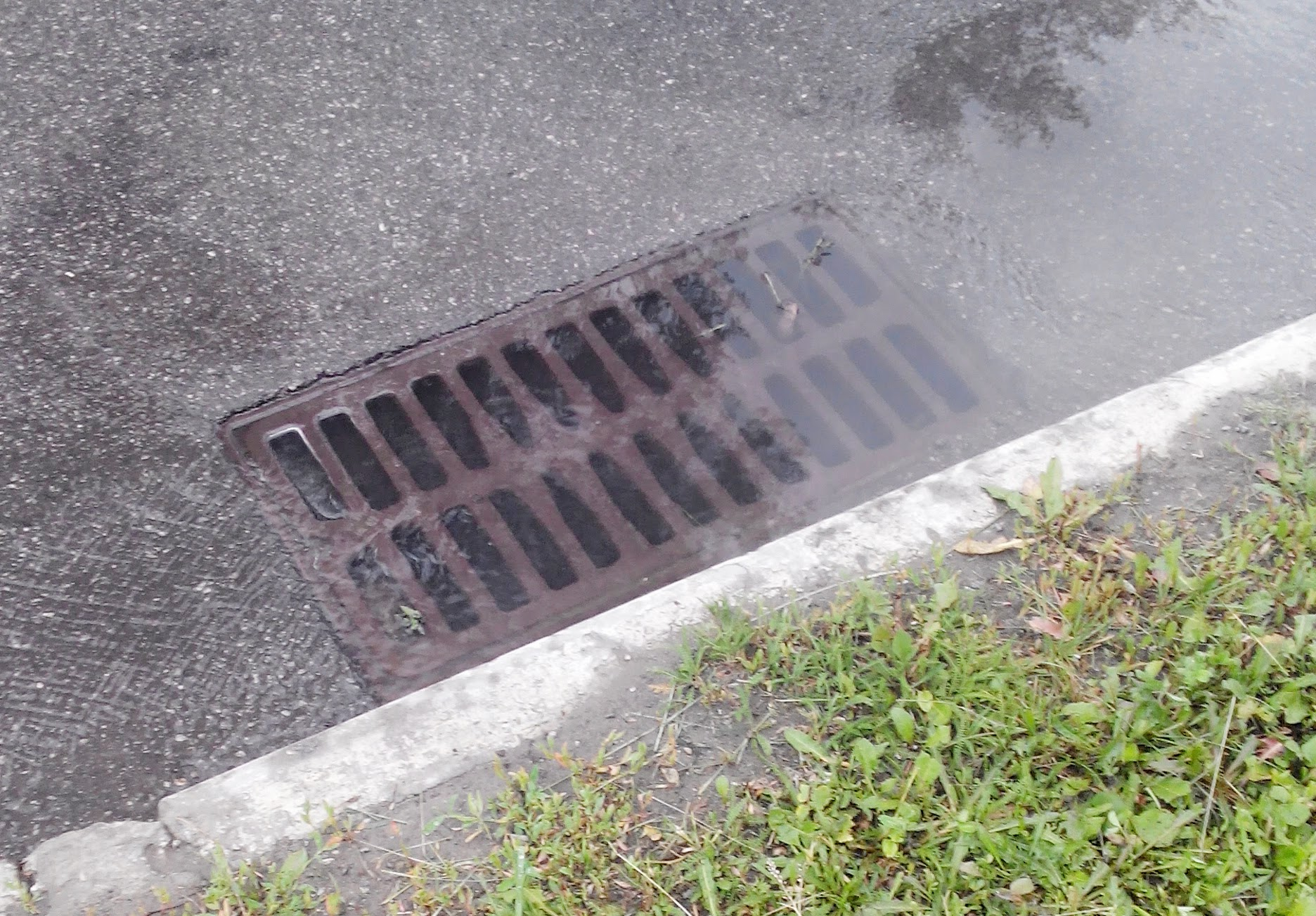 Flooded rain sewer with rectangular rainwater drain cover